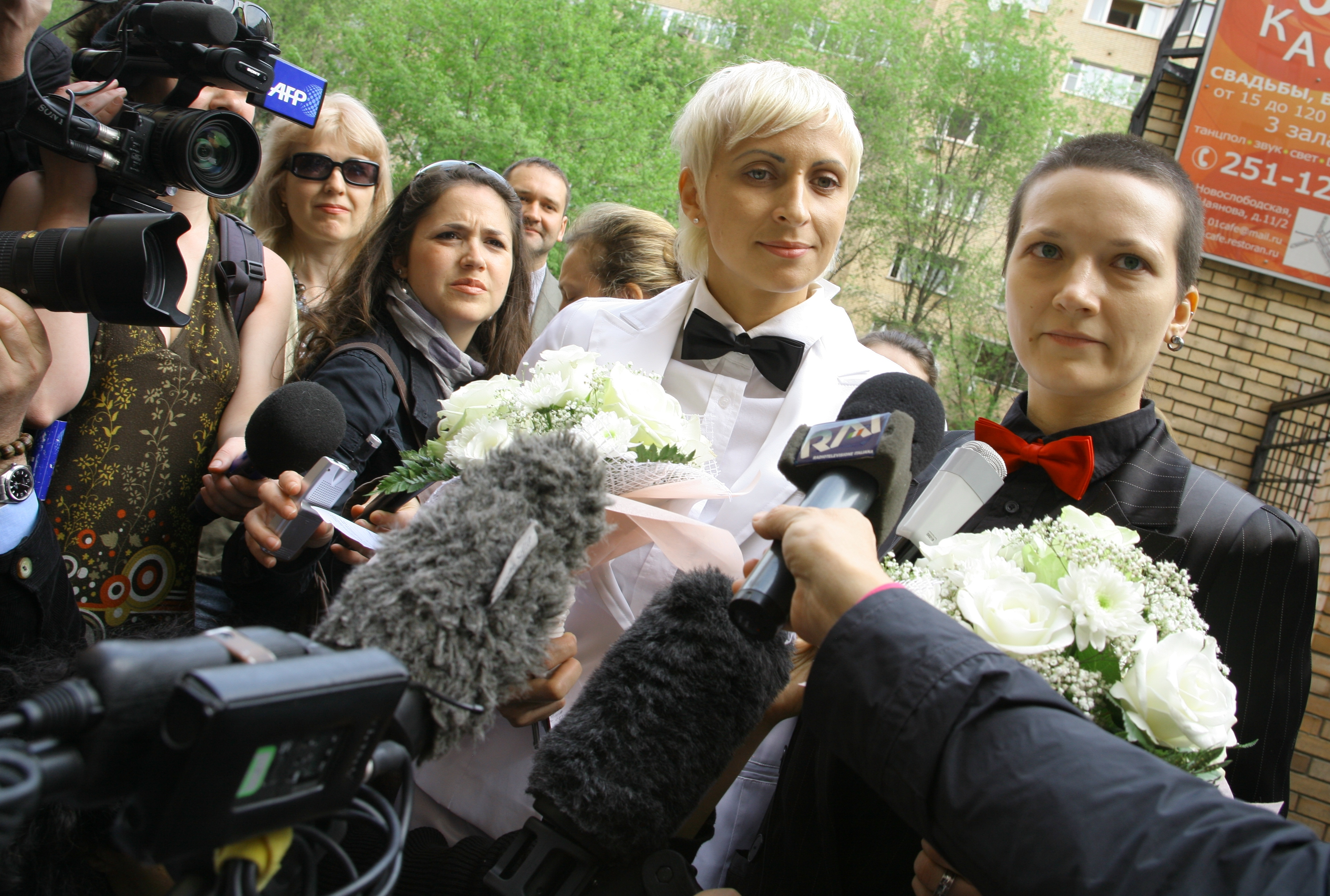 A photo of Irina Fedotova-Fet and Irina Shipitko in front of the Tverskoy Office for the registration of civil acts of Moscow, where they were denied a marriage license, taken in Moscow, Russia, on May, 12 2009